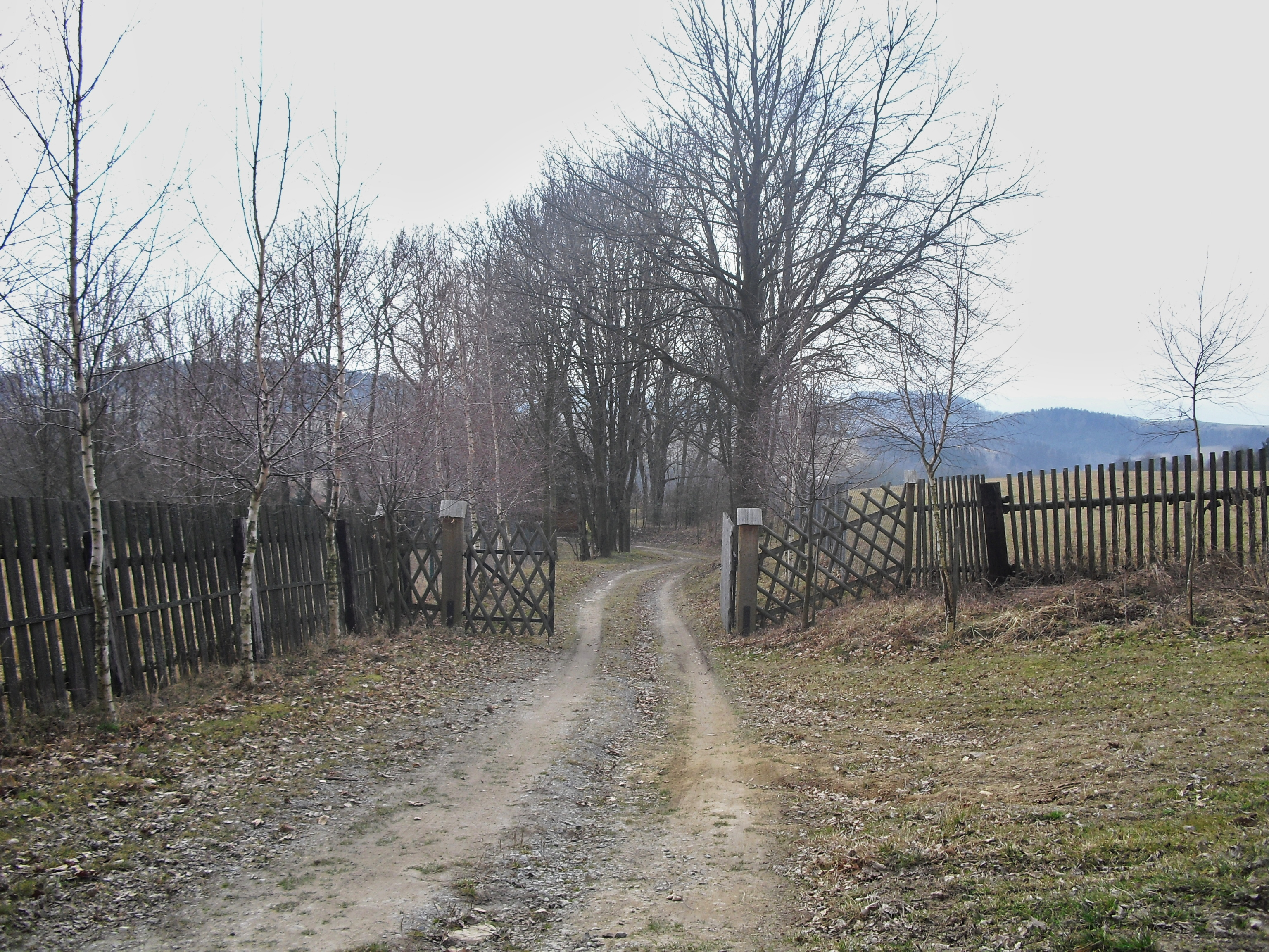 Votice, Benešov District, Czech Republic, part Vranov.